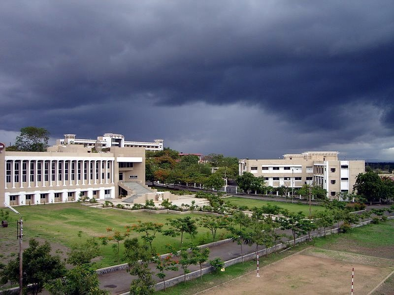 Medicaps Institute of Technology & Management, Indore